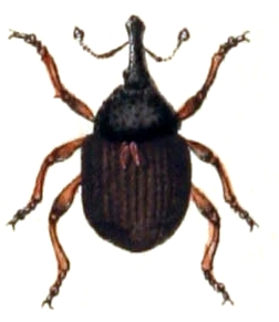 Amalus scortillum, from Calwer's Käferbuch, Table 33, Picture 10. Taxonomy was updated to 2008, using mostly the sites Fauna Europaea and BioLib. Please contact Sarefo if the determination is wrong!